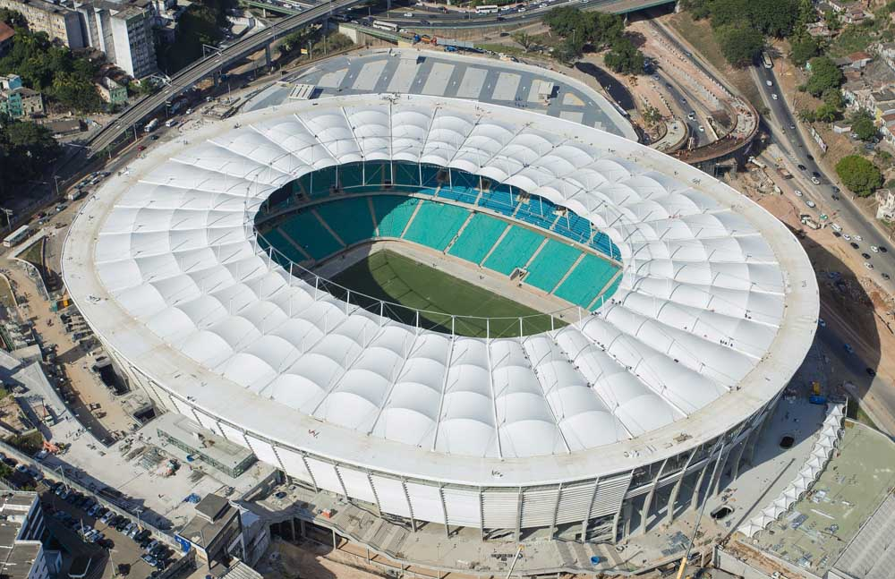 Arena Fonte Nova 2013